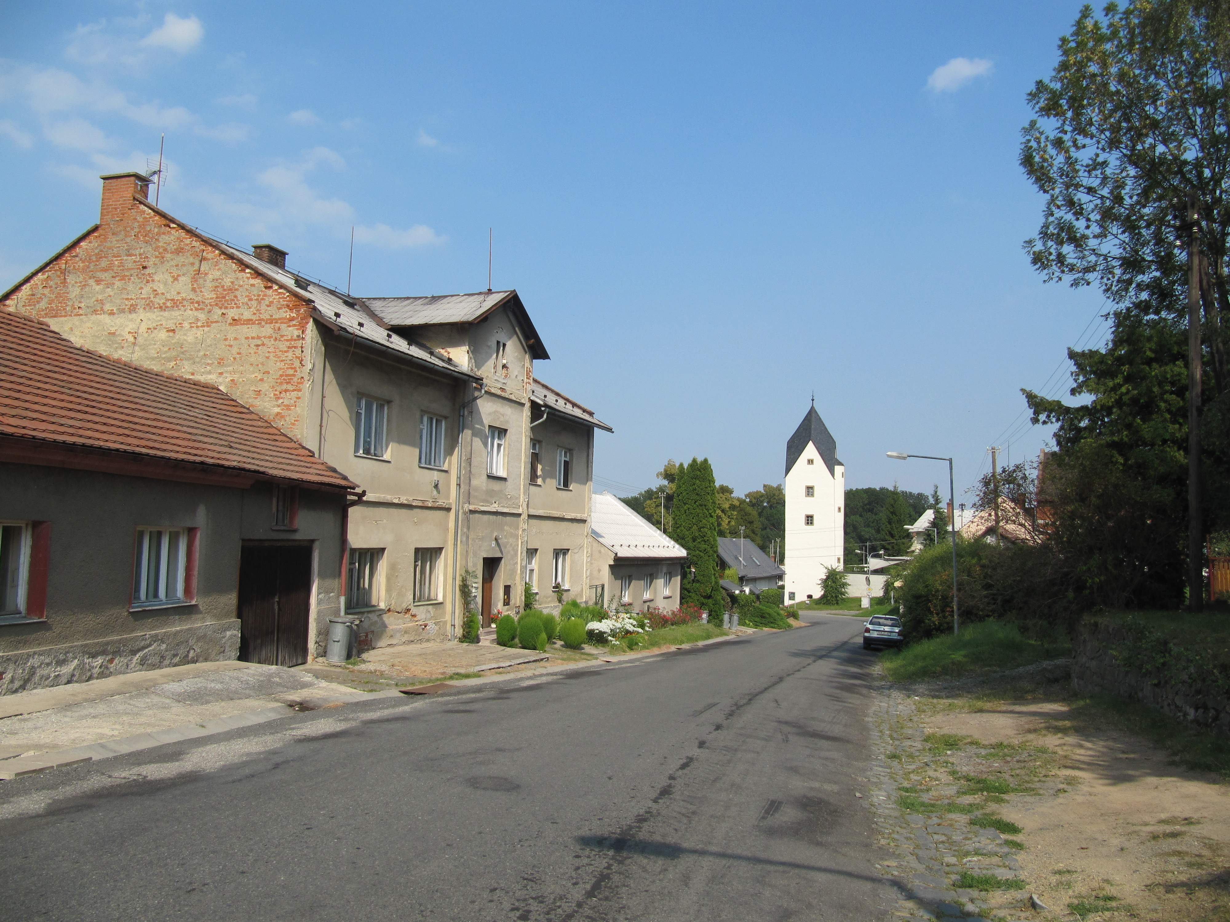 Drahanovice in Olomouc District, Czech Republic. Street and Black Tower.